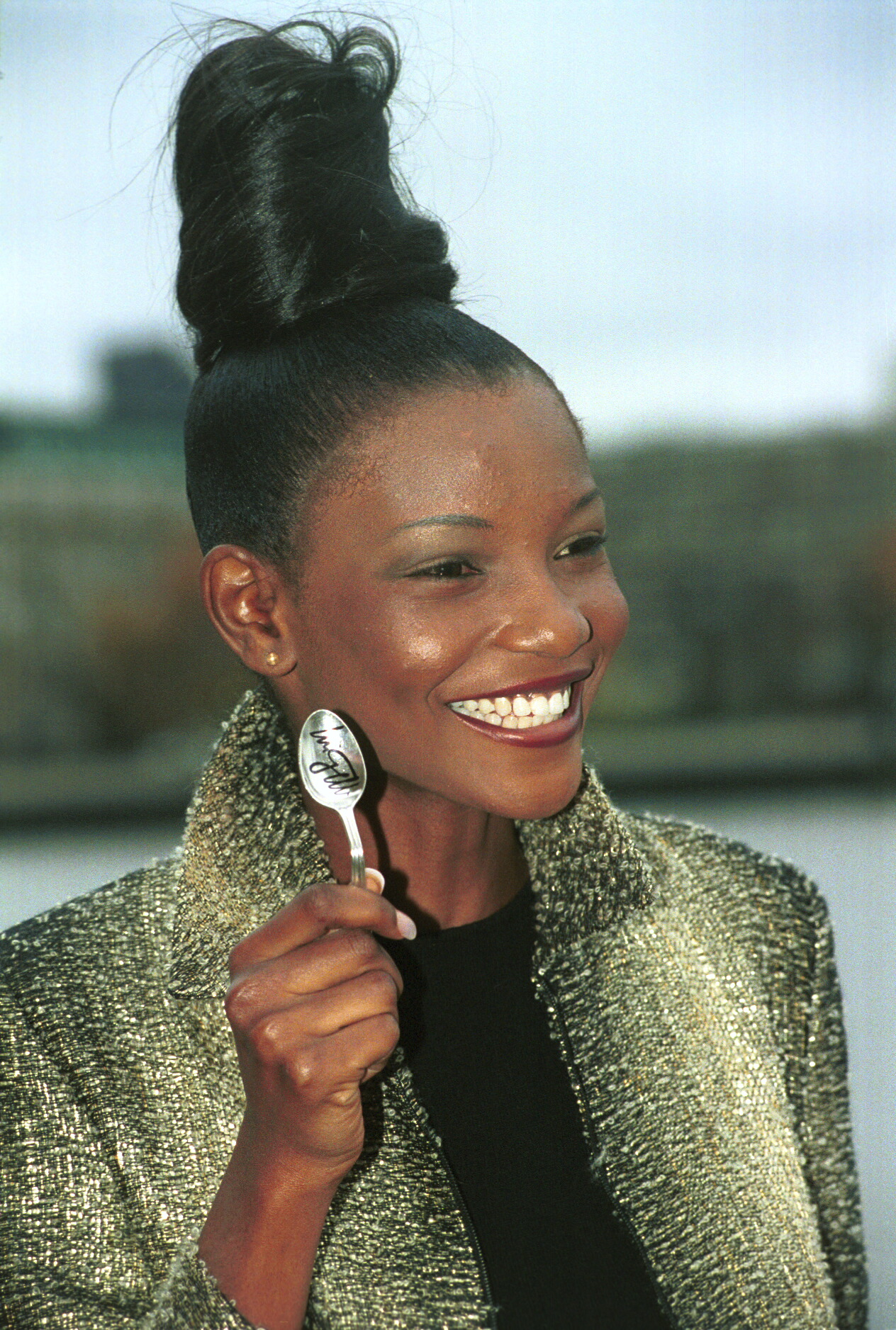 Agbani Darego Miss World from Nigeria at a Patti Boulaye Support for Africa event at the House of Commons